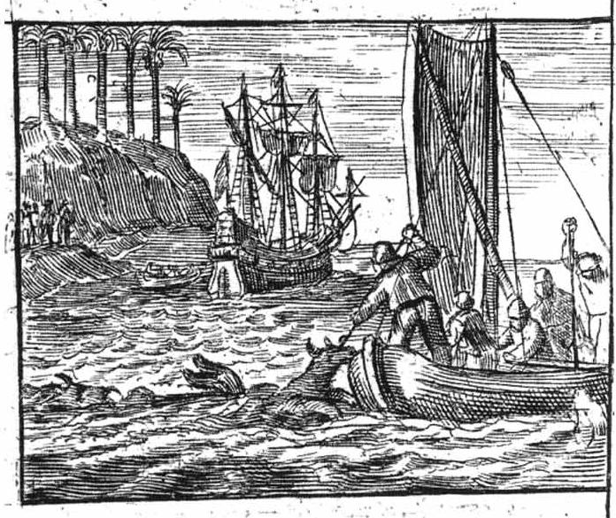 An engraving the publisher H. Soete Boom had made for the journal of Willem Van West-Zanen (c 1602) showing the killing of a seacow (Dugong dugong).[1]